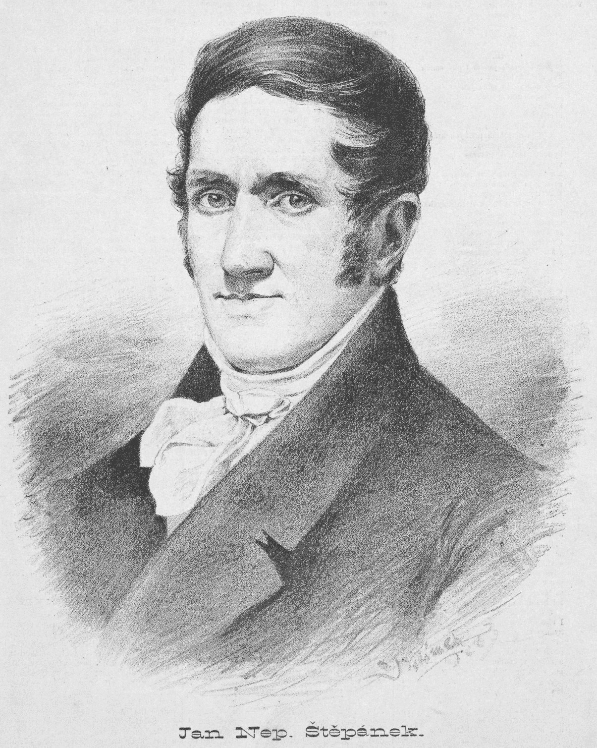 Portrait of Jan Nepomuk Štěpánek, Czech actor and theater director